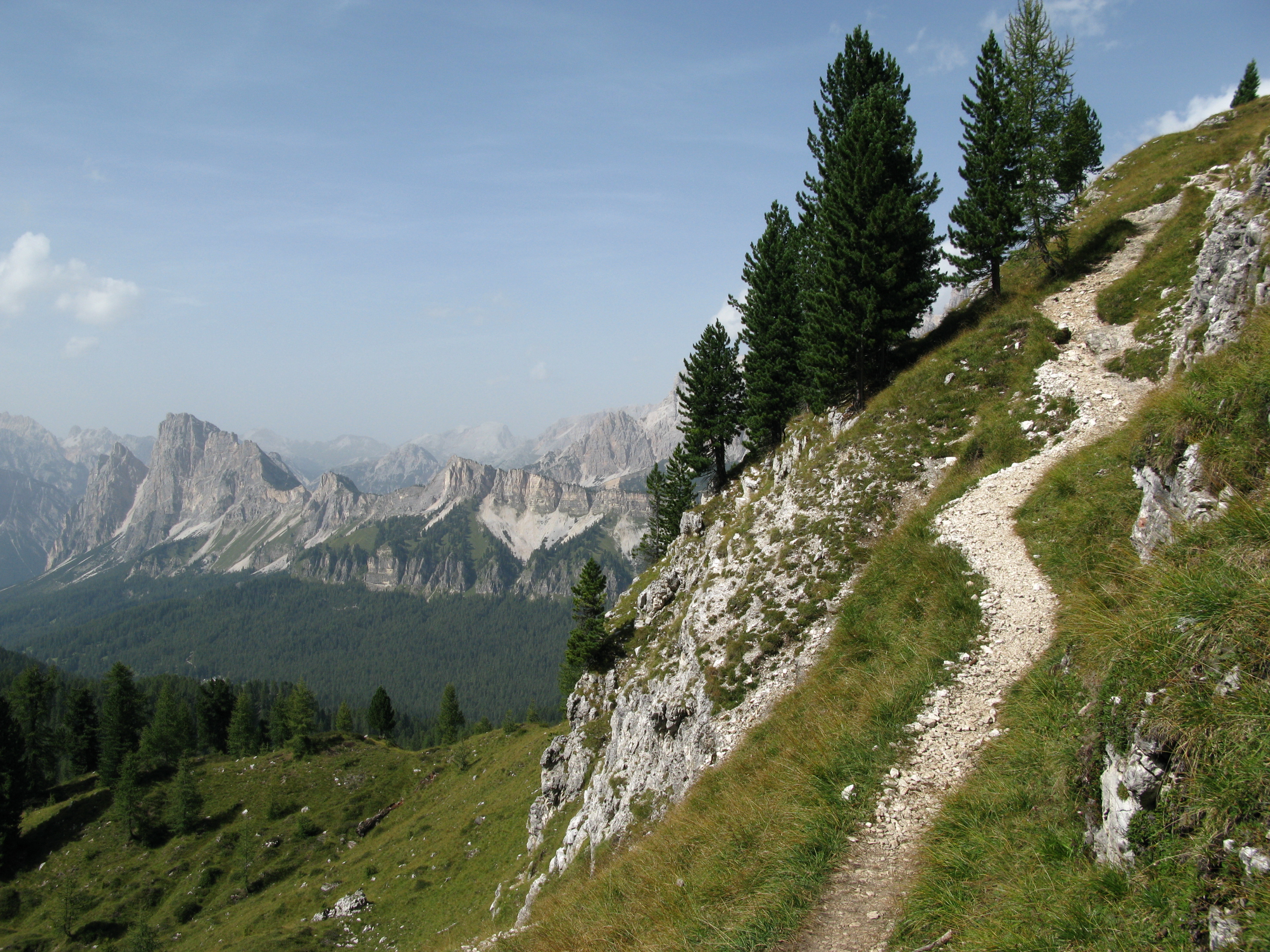 Faloria-Path N°213, Faloria, Cortina d'Ampezzo, Belluno, Italia